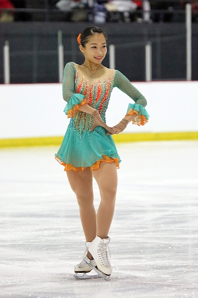 Photos – Autumn Classic – Ladies (Rin NITAYA JPN – 6th Place)